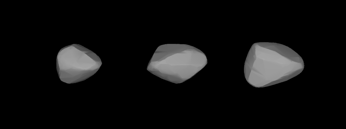 A three-dimensional model of 499 Venusia that was computed using light curve inversion techniques.